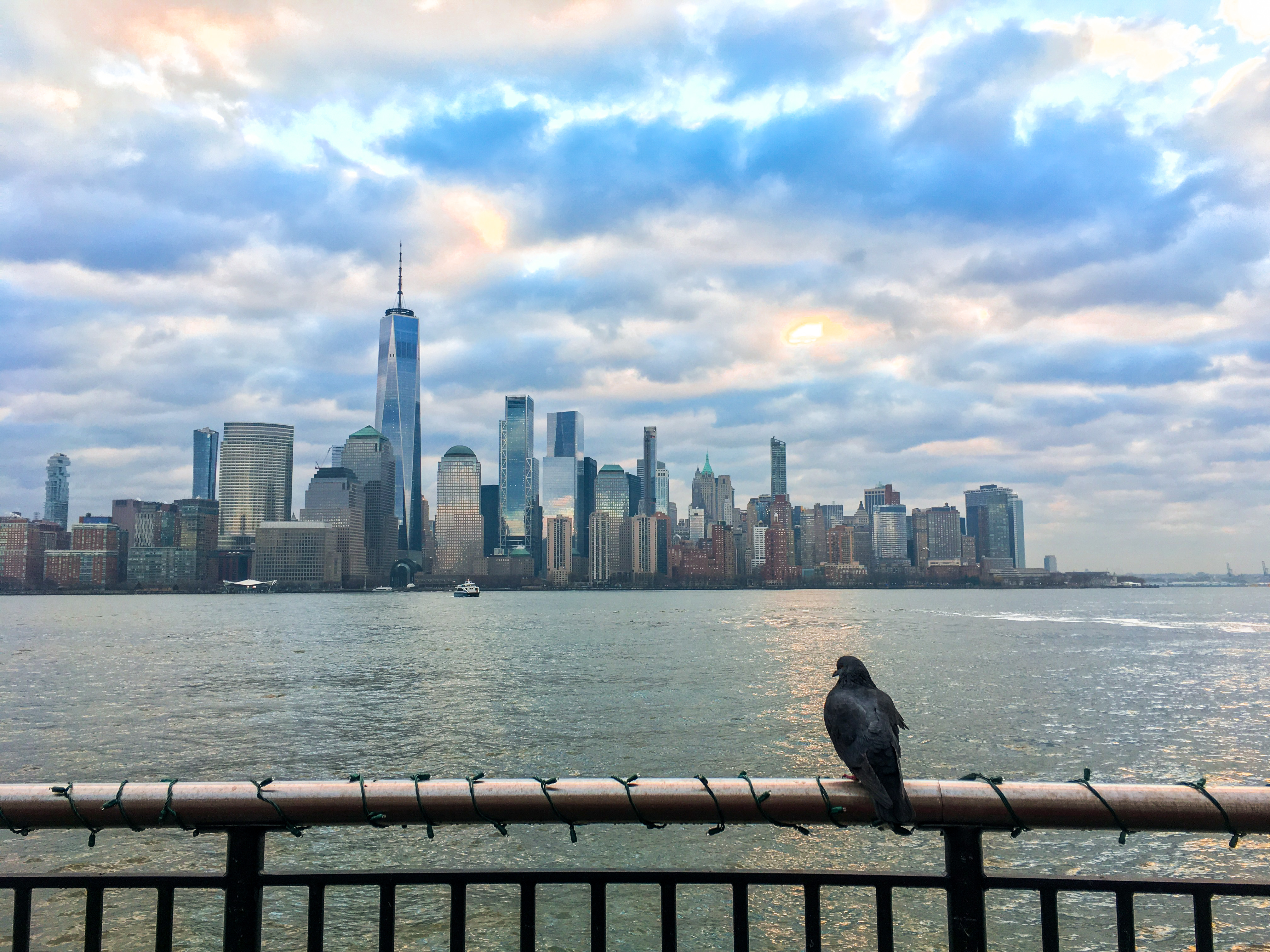 Downtown Manhattan Skyline seen from Exchange Place, with a ferry service departing the Battery Park City terminal towards Paulus Hook in the background.